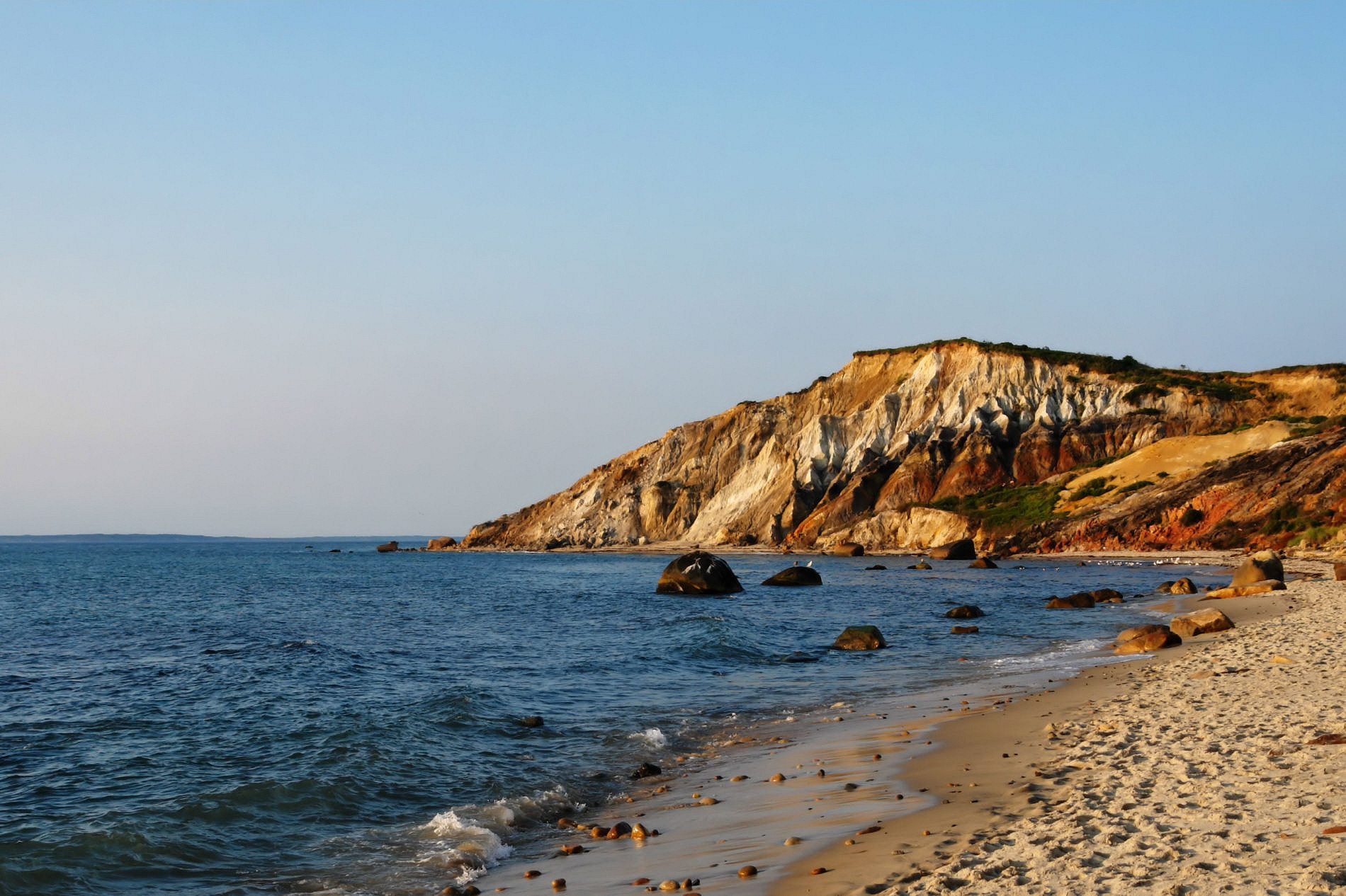 Gay Head Cliffs - Aquinnah - Martha's Vineyard - Massachusetts - USA. These beautiful clay cliffs are located on Martha's Vineyard in Dukes County, close to Aquinnah, a town formerly known as Gay Head (prior to 1998) [1]